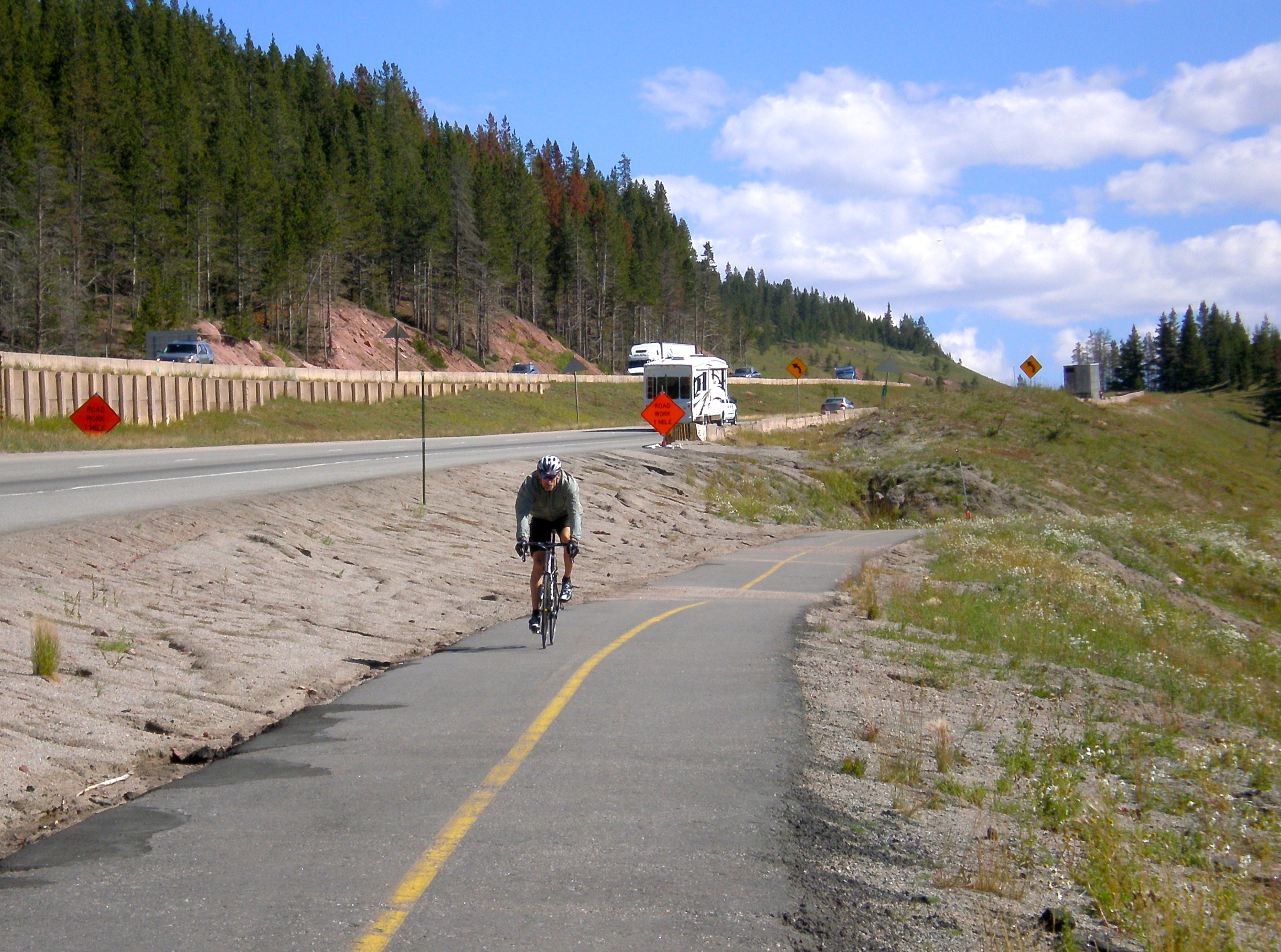 This is an paved, dedicated bike route from Vail to Copper Mt.